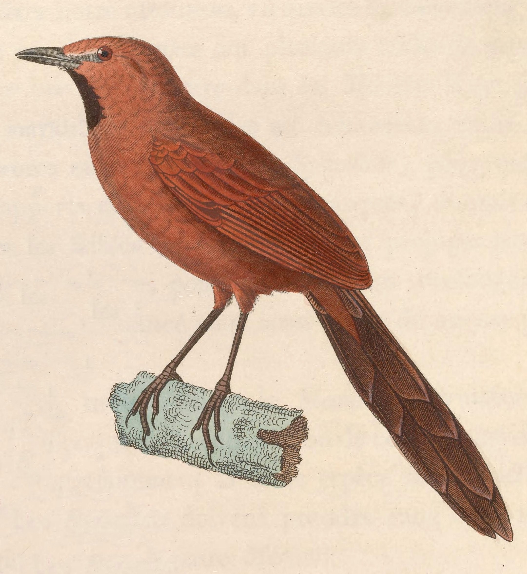 « Synallaxis rutilans » = Synallaxis rutilans (Ruddy Spinetail)